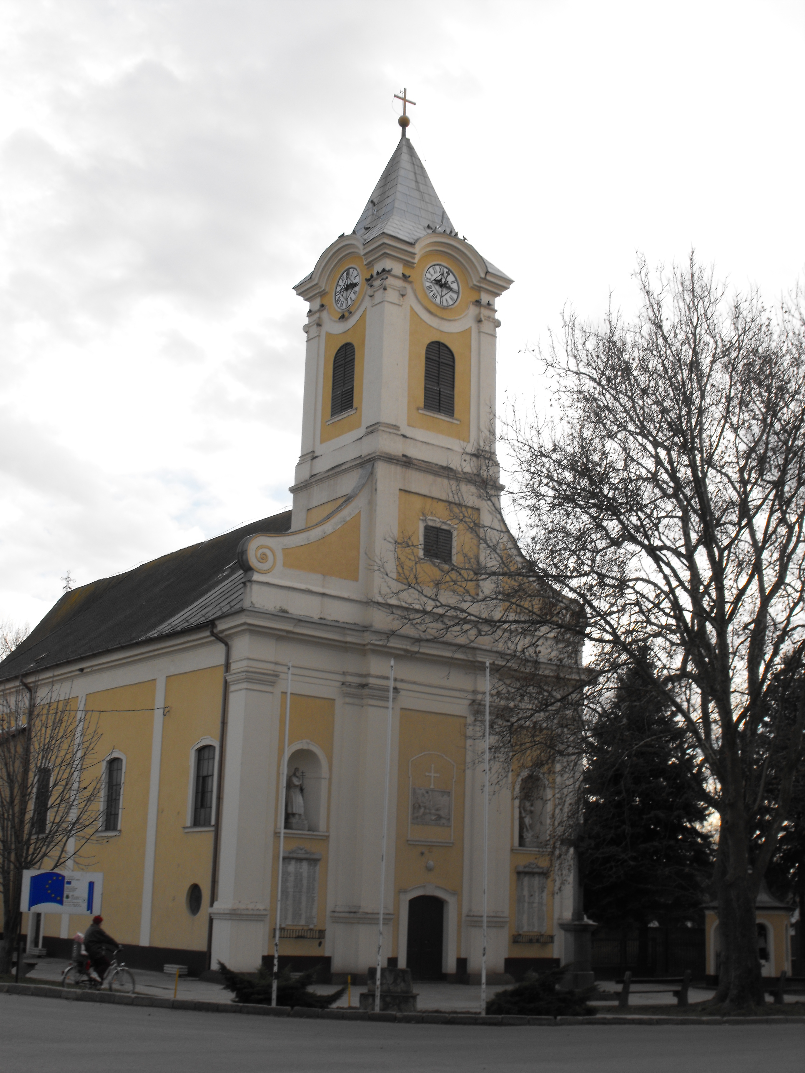 Roman catholic church in Csanádpalota, Hungary.